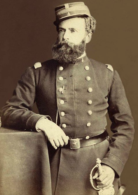 Juan José San Martín